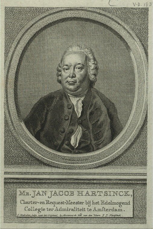 Jan Jacob Hartsinck (1716-1779)